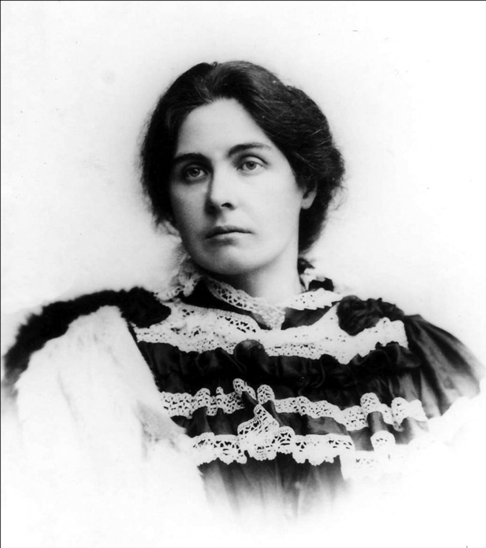 Photographe taken during Constance Wilde’s stay in Heidleberg 1896